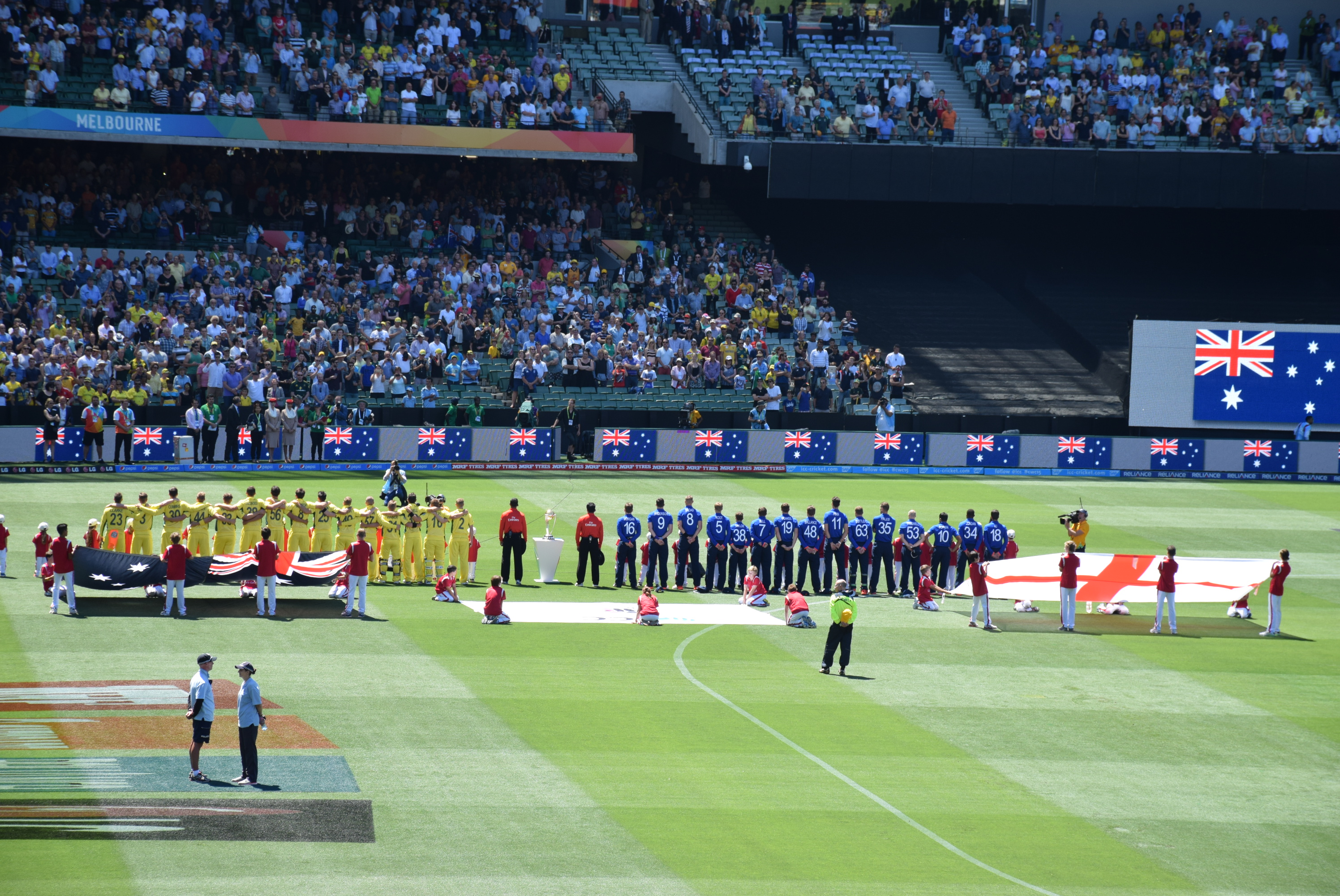 The opening match of the ICC Cricket World Cup at the MCG